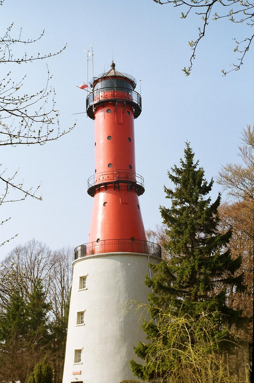 A sea lighthouse at Rozewie Cape